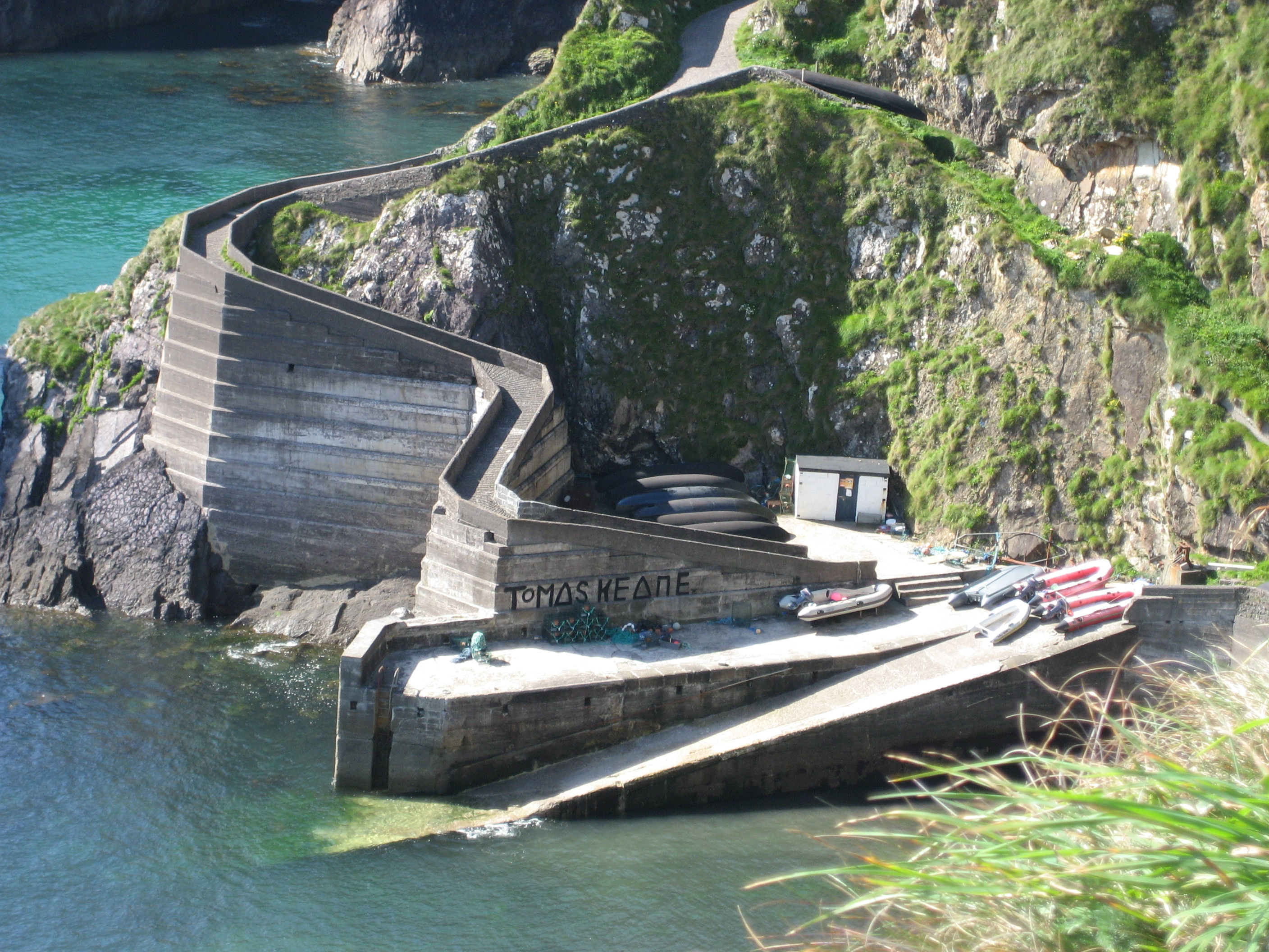 Harbour used to reach the Blasket Islands.